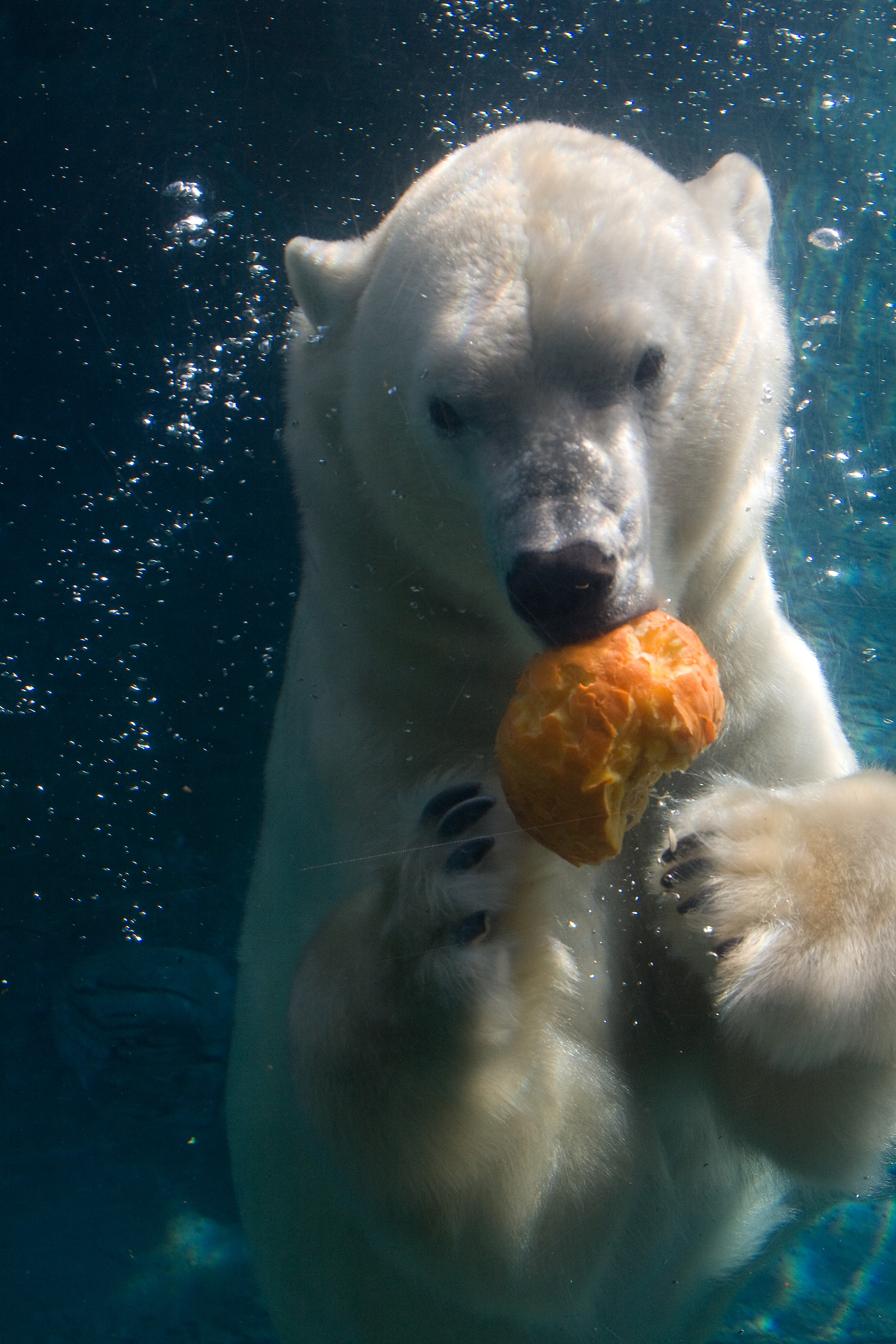 A polar bear eating a pumpkin underwater. I was shocked...to learn that pumpkins float.